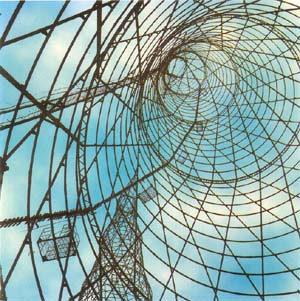 View up the two hyperboloid Shukhov Oka Towers, on the west bank of the Oka River in central Russia, 1989. Two 1929 Soviet Union era electricity pylons allowed transmission lines to cross the Oka River, and they were designed and engineered by the great Russian scientist Vladimir Shukhov (1853-1939). The remaining one of the two is on the west bank of the Oka River near Dzerzhinsk, in Nizhniy Novgorod Oblast (east tower illegally demolished for scrap steel—2005). The west tower is the world’s only surviving hyperboloid electricity pylon.